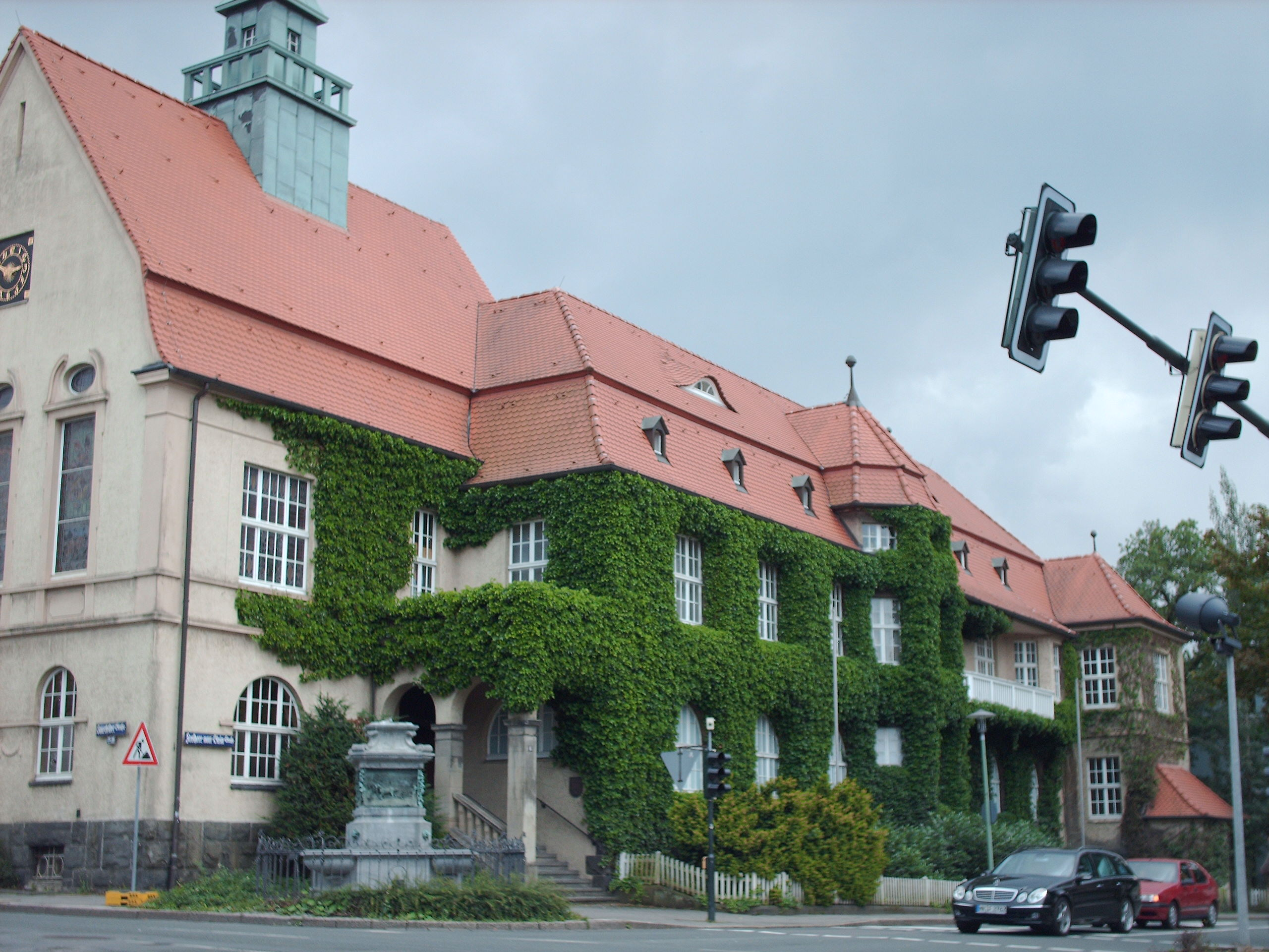 Former Amtshaus, Lüdenscheid, Germany check usage